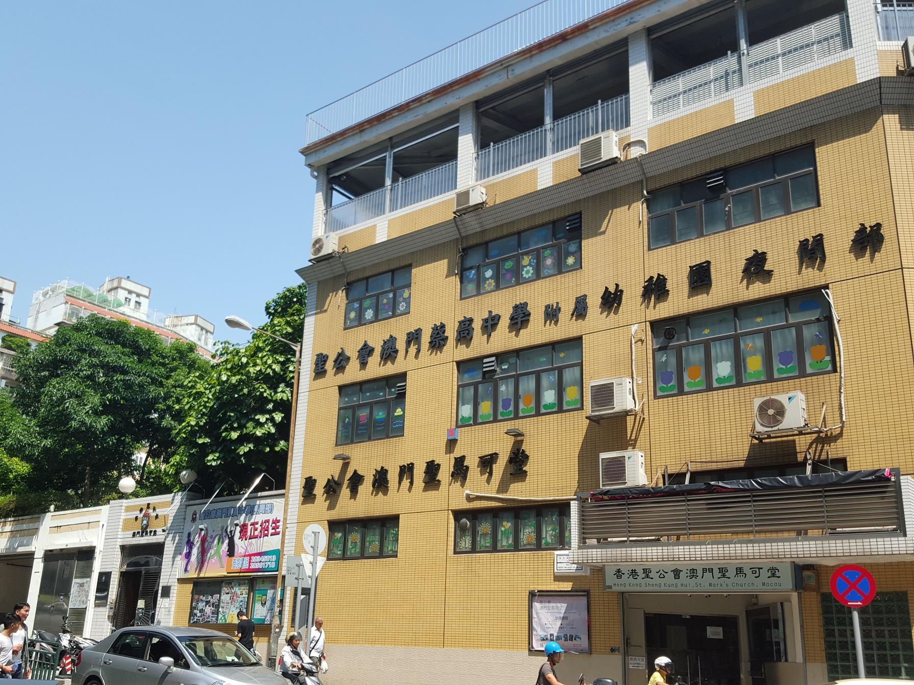 Sheng Kung Hui Choi Kou School (Macau)